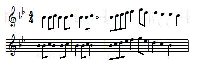 Mjaskowski's 6th Symphony, 4th Mouvement: Ah, ca ira!